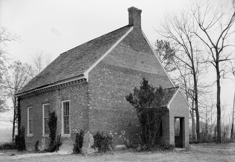 Hickory Neck Church, U.S. Route 60, Toano vicinity (James City, Virginia) cropped This file comes from the Historic American Buildings Survey (HABS), Historic American Engineering Record (HAER) or Historic American Landscapes Survey (HALS). These are programs of the National Park Service established for the purpose of documenting historic places. Records consist of measured drawings, archival photographs, and written reports. When reusing please credit: Library of Congress, Prints & Photographs Division, VA,48-TOA,1-1 This tag does not indicate the copyright status of the attached work. A normal copyright tag is still required. See Commons:Licensing for more information. This work is in the public domain in the United States because it is a work prepared by an officer or employee of the United States Government as part of that person’s official duties under the terms of Title 17, Chapter 1, Section 105 of the US Code. See Copyright. Note: This only applies to original works of the Federal Government and not to the work of any individual U.S. state, territory, commonwealth, county, municipality, or any other subdivision. This template also does not apply to postage stamp designs published by the United States Postal Service since 1978. (See § 313.6(C)(1) of Compendium of U.S. Copyright Office Practices). It also does not apply to certain US coins; see The US Mint Terms of Use. This file has been identified as being free of known restrictions under copyright law, including all related and neighboring rights.